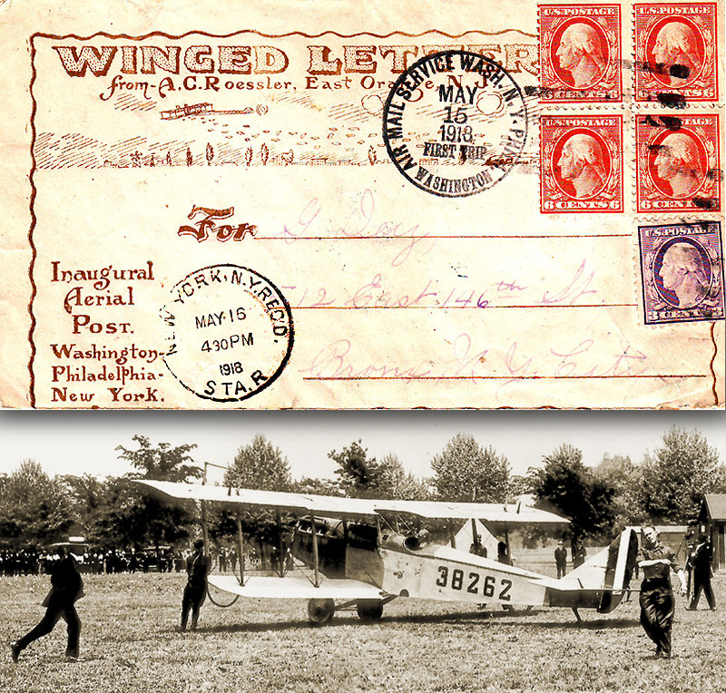 First U.S. Air Mail flight takes off from Washington, D.C. on May 15, 1918, flown by U.S. Army pilot Lt. George Boyle (U.S. Army photo) with "Inaugural Aerial Post" cover with Washington, DC "First Trip" canceled cover carried on that flight. (Composite digital illustration created by the uploader.)